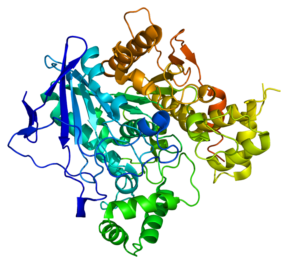 Structure of the BCHE protein. Based on PyMOL rendering of PDB 1p0i.